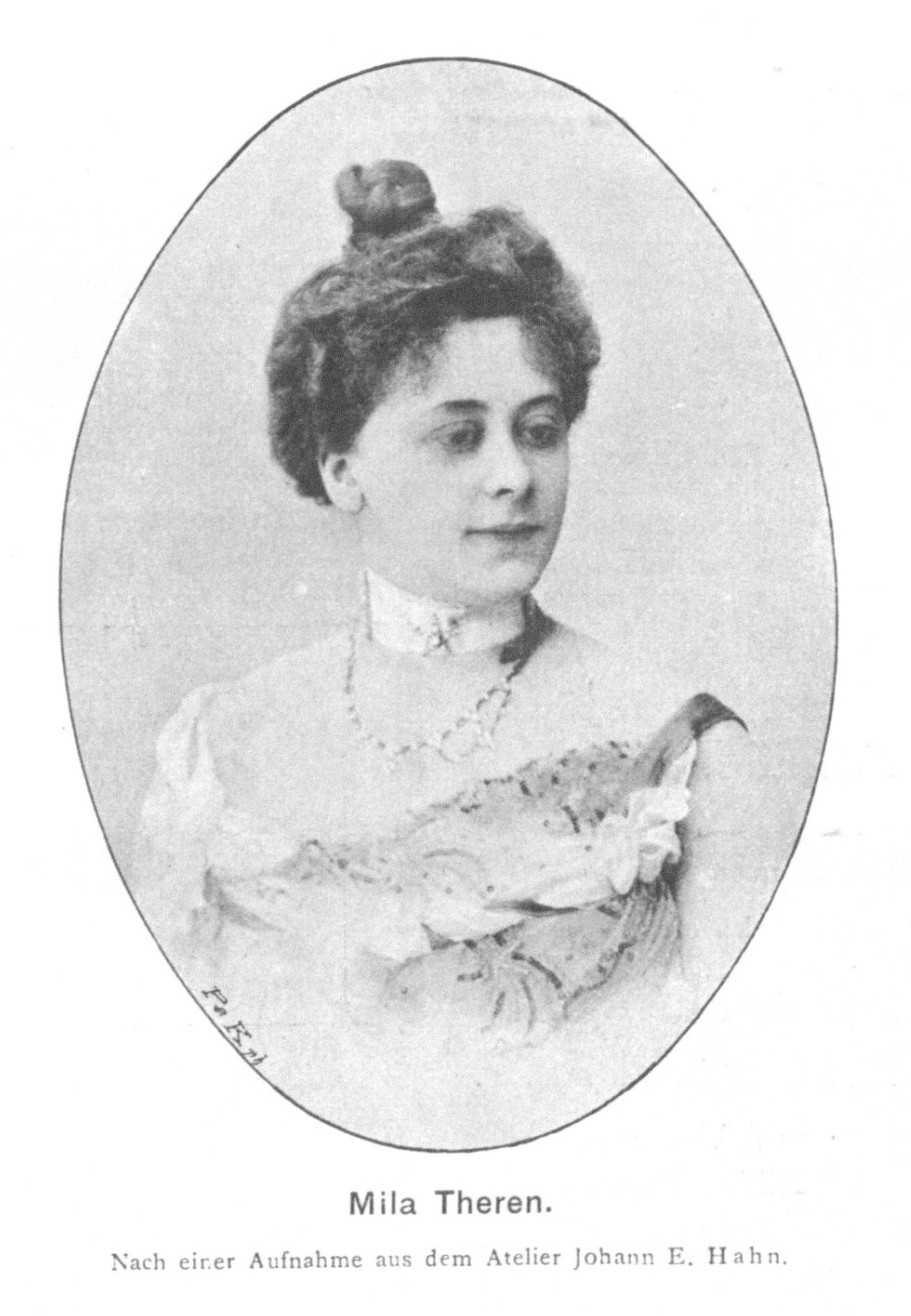 Portrait of Mila Theren (1876-??), Austrian actress.